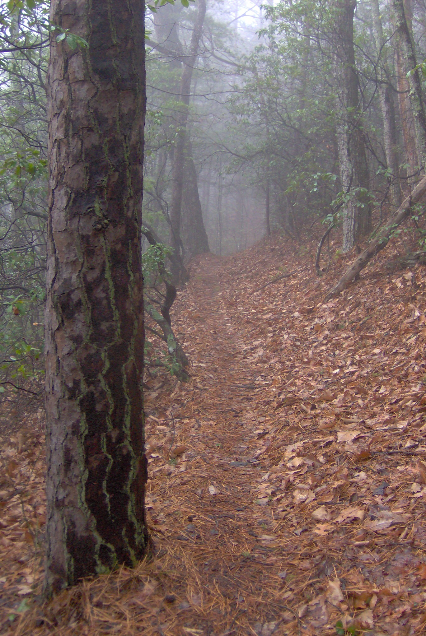 The Roundtop Trail in the Great Smoky Mountains of Tennessee, in the southeastern United States. The trail passes through a thick pine-oak forest, characterized by the trees in the foreground.